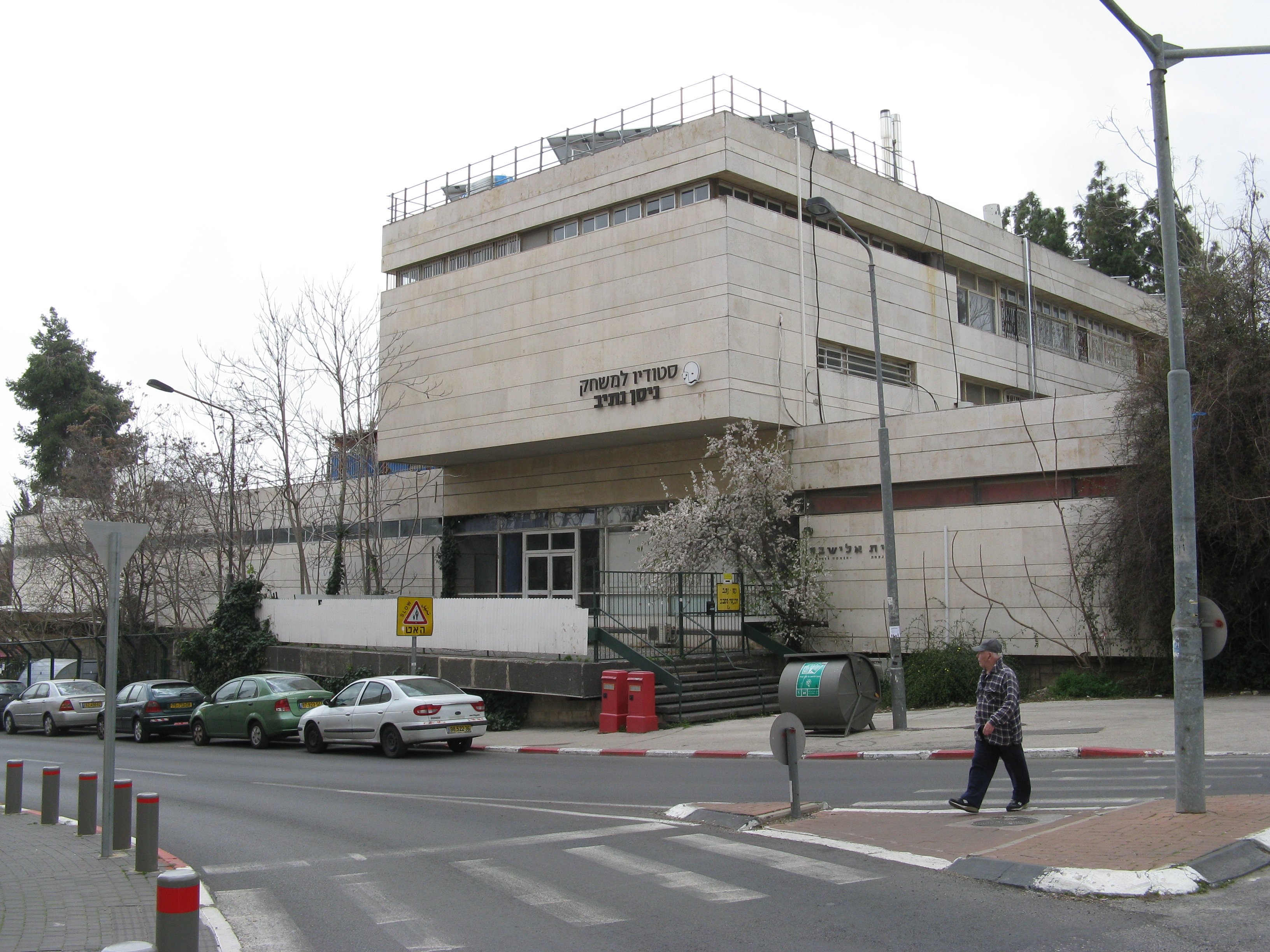 Beit Elisheva, Planned by the architect team of Michael and Shulamit Nadler (in collaboration with Shmuel Bixson). Nissan Nativ acting studio - Jerusalem Branch.